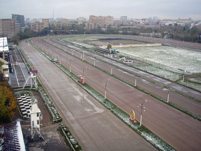 Moscow Hippodrome